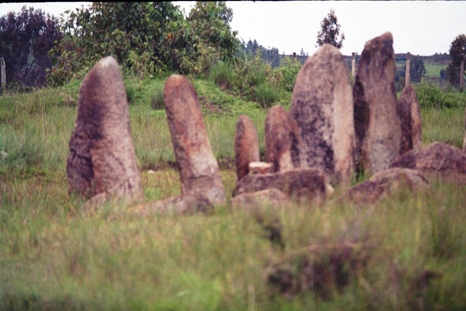 Stones in the Tiya Stele Field, Gurage Zone, Southern Nations, Nationalities, and Peoples Region of Ethiopia